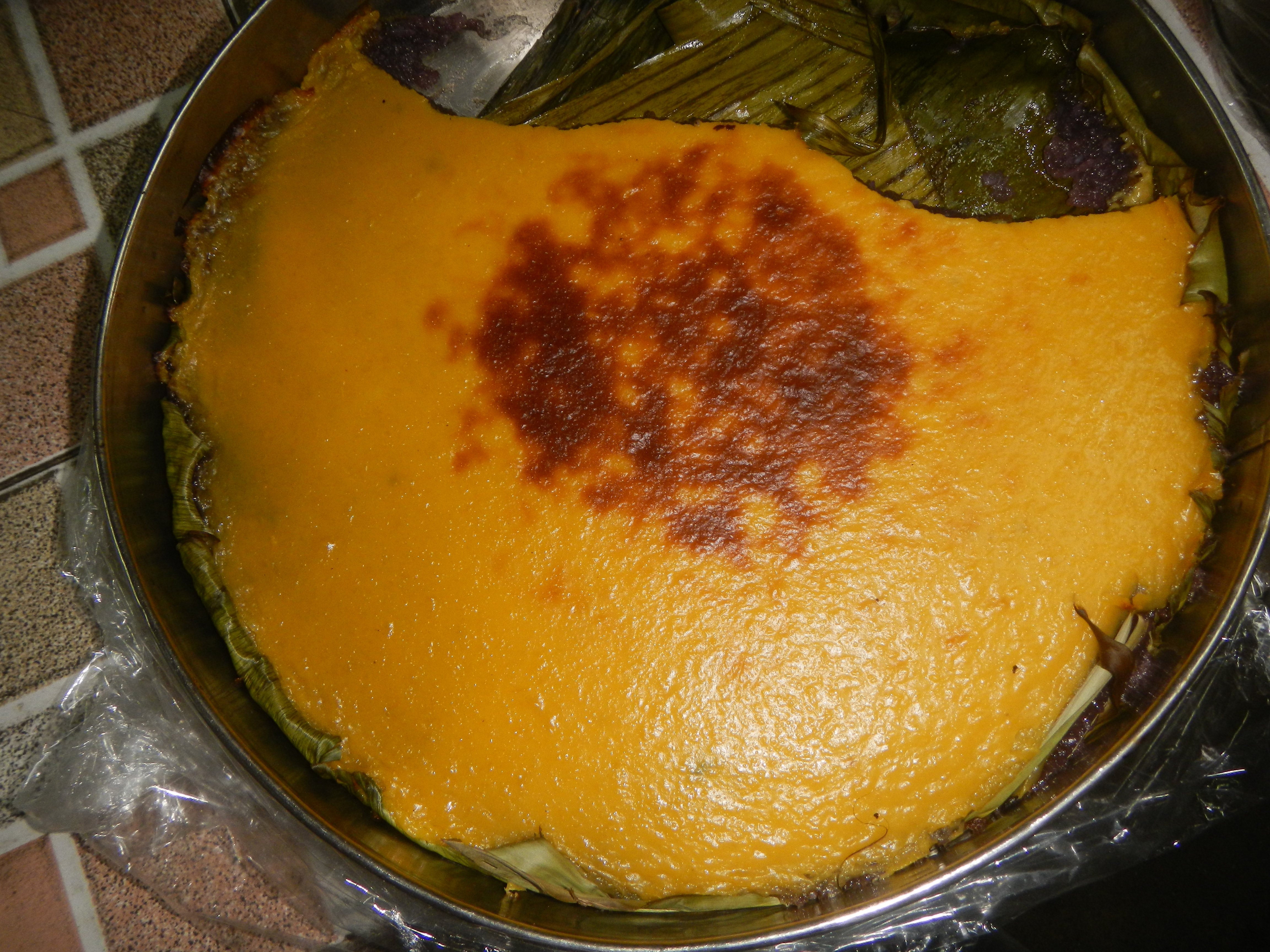 Kakanin Kalamay ube with Latik Maja blanca mais Maja blanca pandan Cassava cake Tibok-tibok Bibingkang kanin List of Philippine dishes Pulilan, Bulacan Public Market foods kakanin in Barangay Cutcot, Pulilan, Bulacan 14°54'19"N 120°51'52"E, Pulilan, Bulacan Bulacan (Note: Judge Florentino Floro, the owner, to repeat, Donor Florentino Floro of all these photos hereby donate gratuitously, freely and unconditionally all these photos to and for Wikimedia Commons, exclusively, for public use of the public domain, and again without any condition whatsoever).